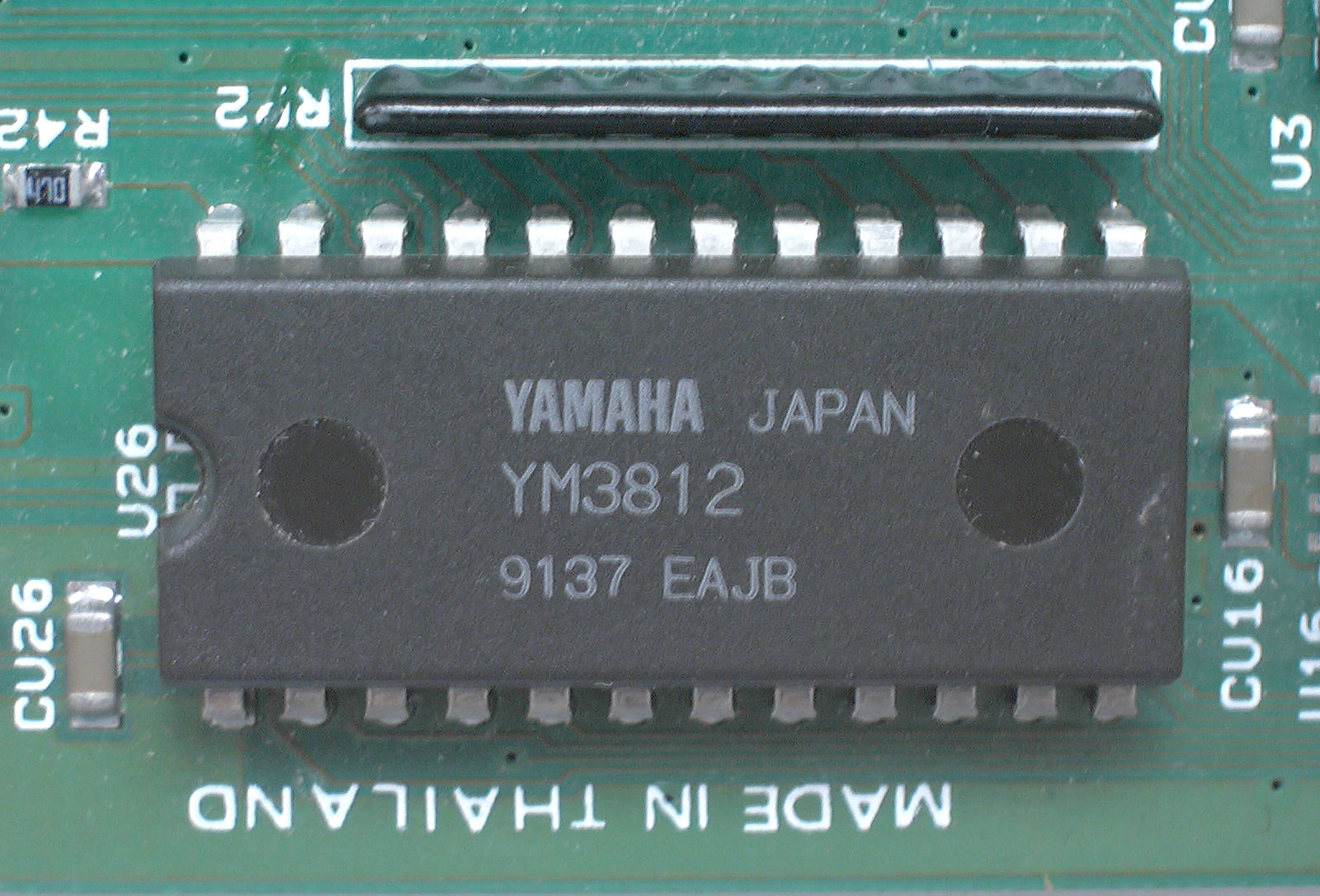 A Yamaha YM3812 sound chip, better known as OPL2 Taken by me on March 21st 2006.